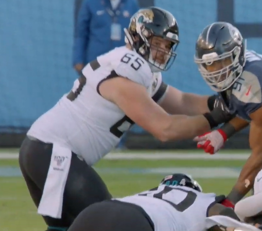 Brandon Linder 2019. Image from video Harold Landry Takes Down Nick Foles | Slow-Mo Monday, ~ 00:06